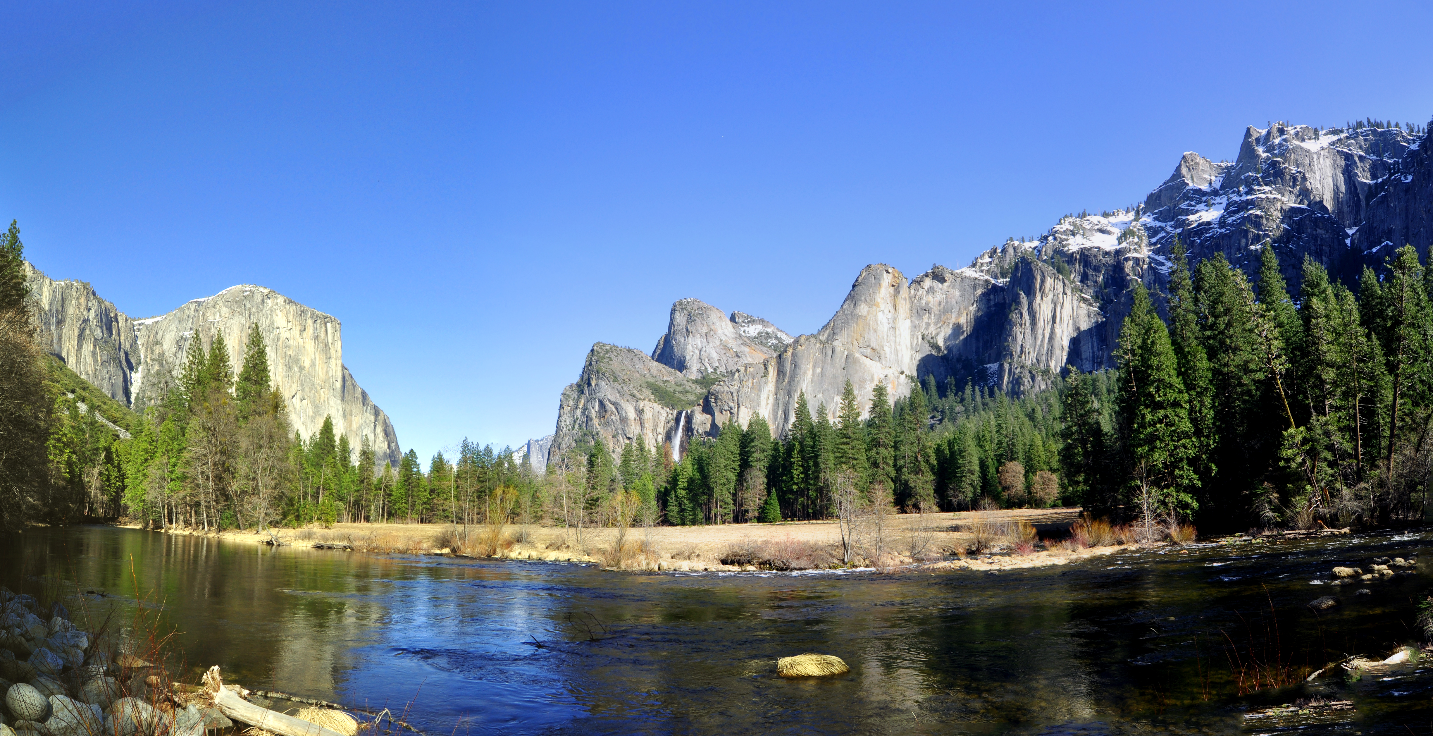 Yosemite National Park El Capitan Cathedral Rocks Merced River panorama 2010